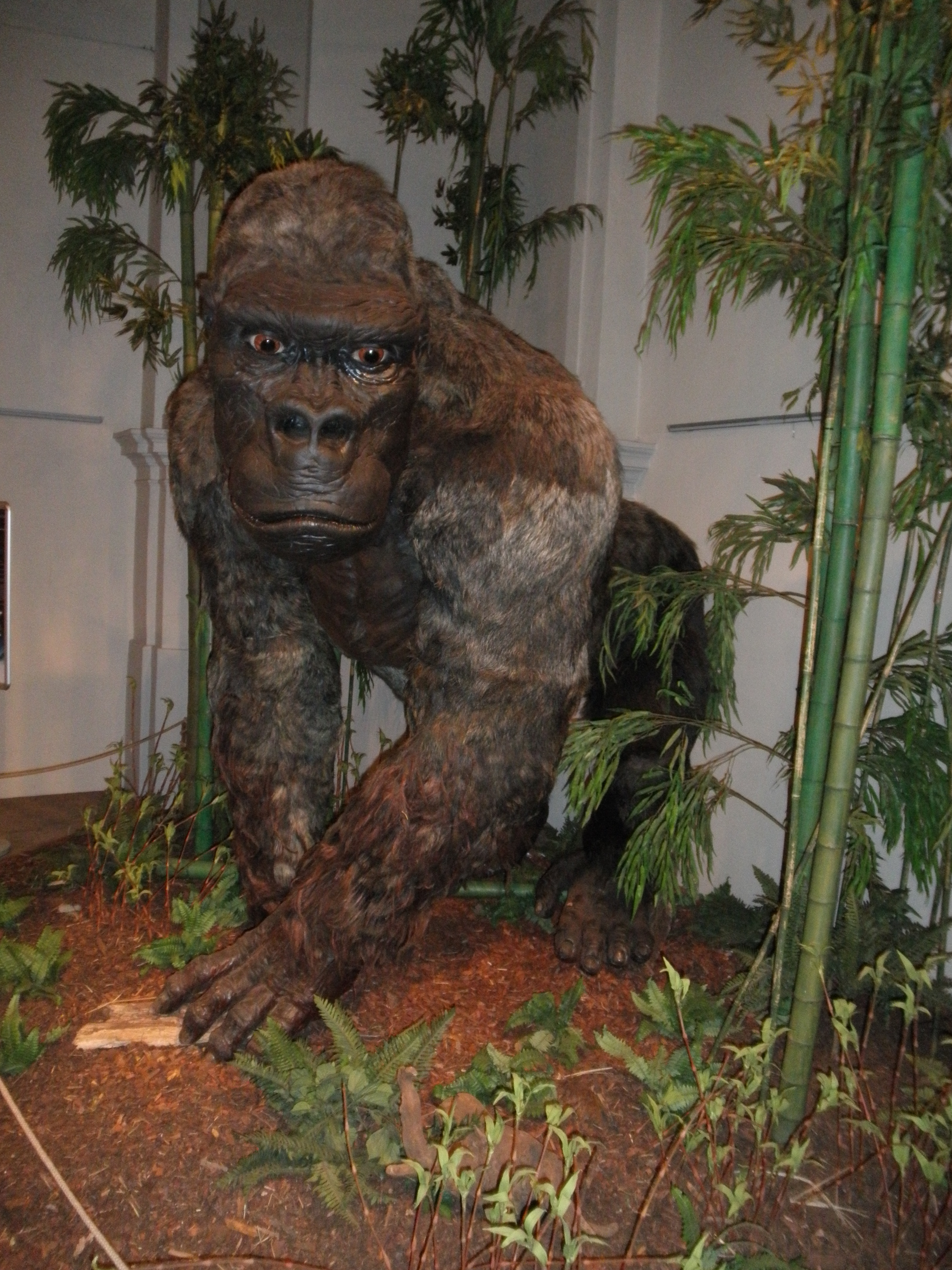 Restoration of Gigantopithecus blacki as appeared at "Gigants" exhibition in the Czech Republic, 2014.